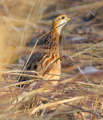 White-throated Francolin (Peliperdix albogularis), Benoua National Park, Cameroon